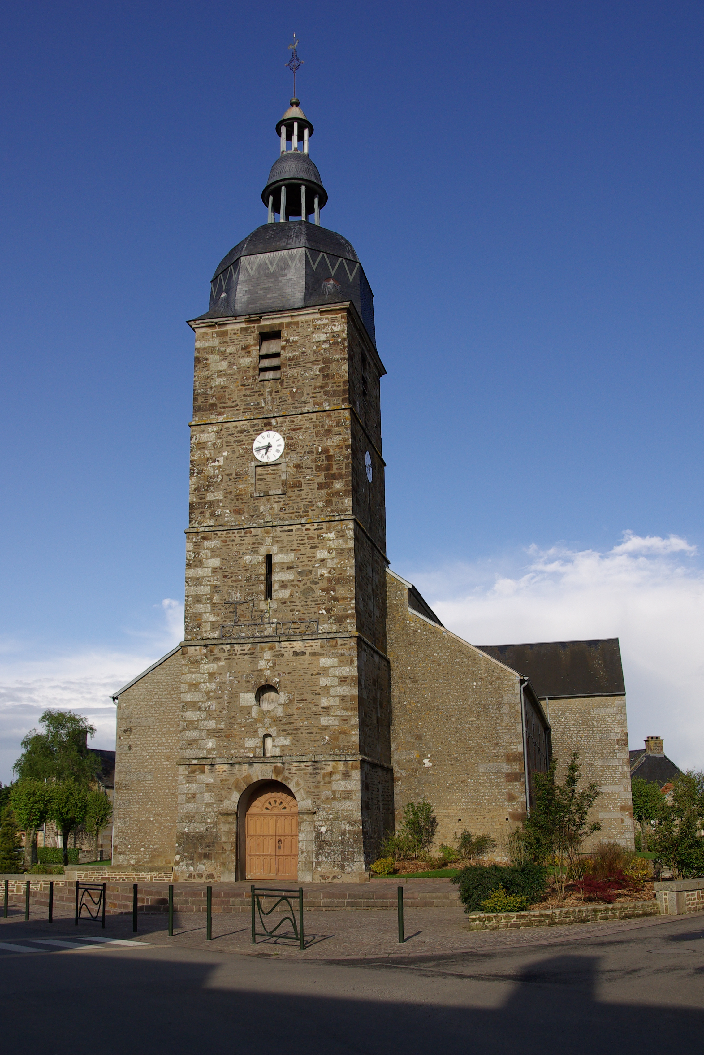 Notre-Dame' church in Frênes Orne 61 France